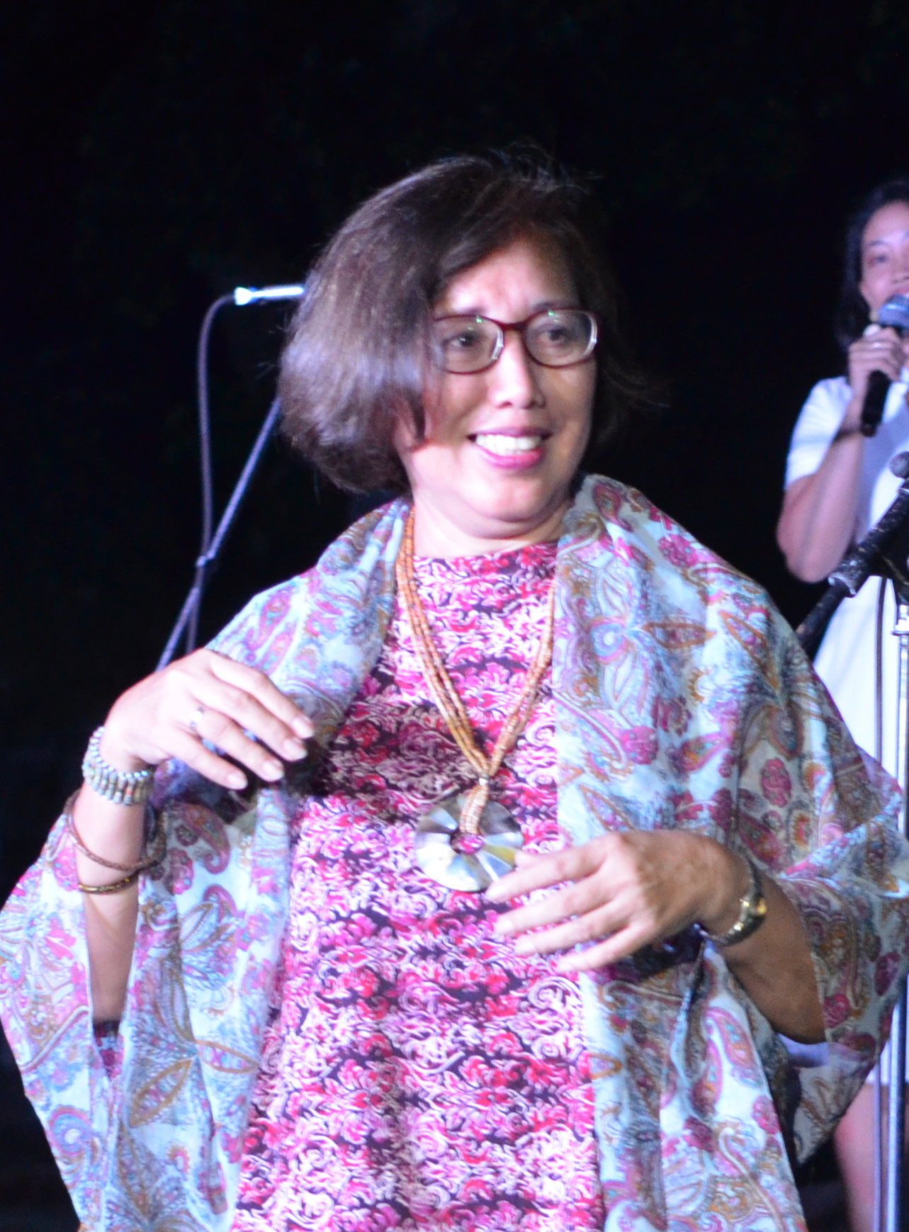 Picture taken during the staging of Lunop han Dughan at University of the Philippines Visayas Tacloban College in 2019